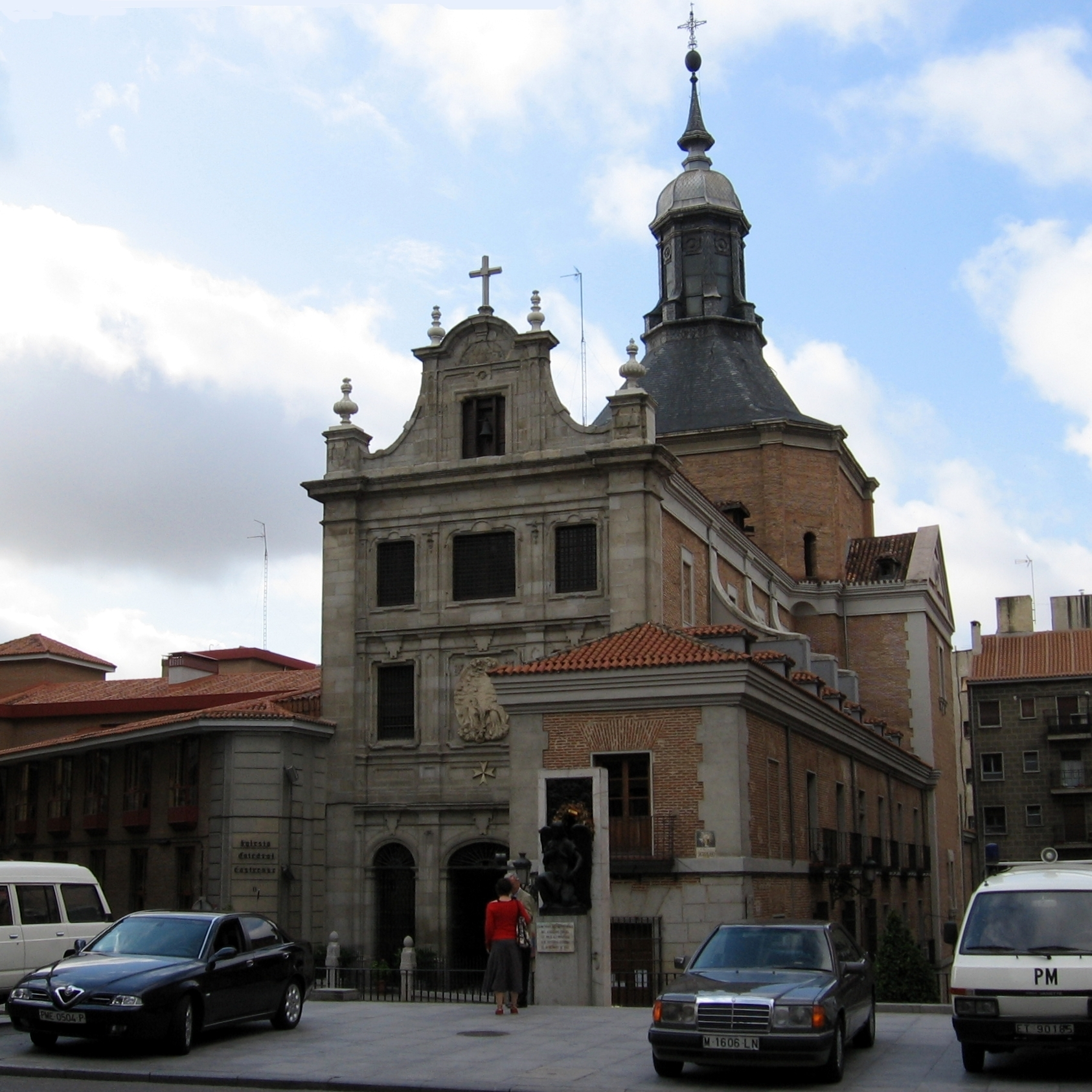 Military Cathedral Church, Madrid. See Military ordinariate.